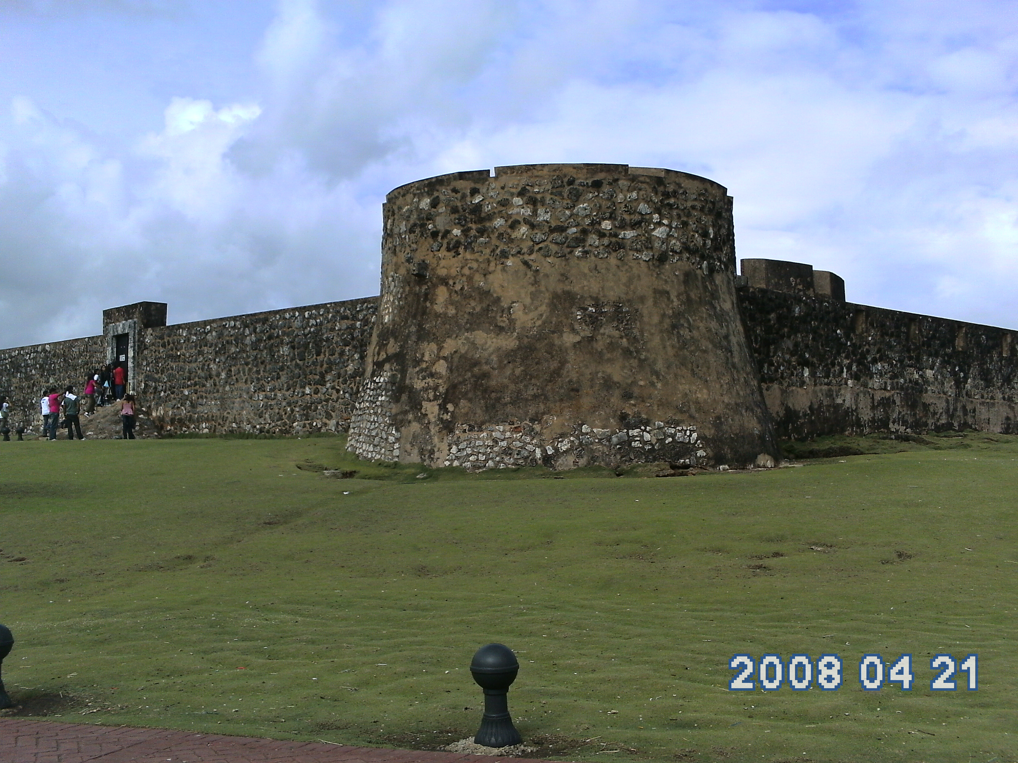 the Puerto Plata fort